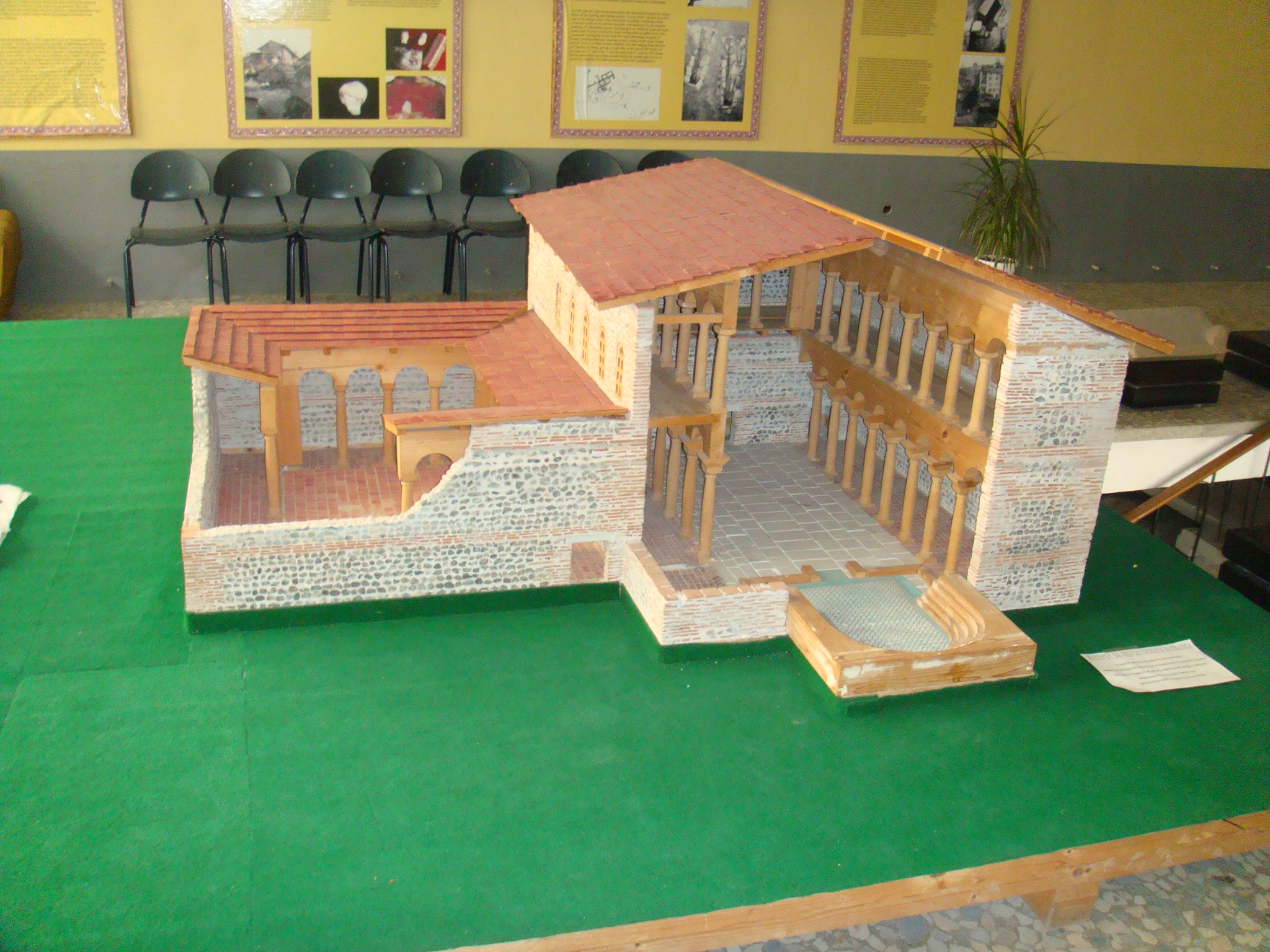 The episcopal basilica in Sandanski